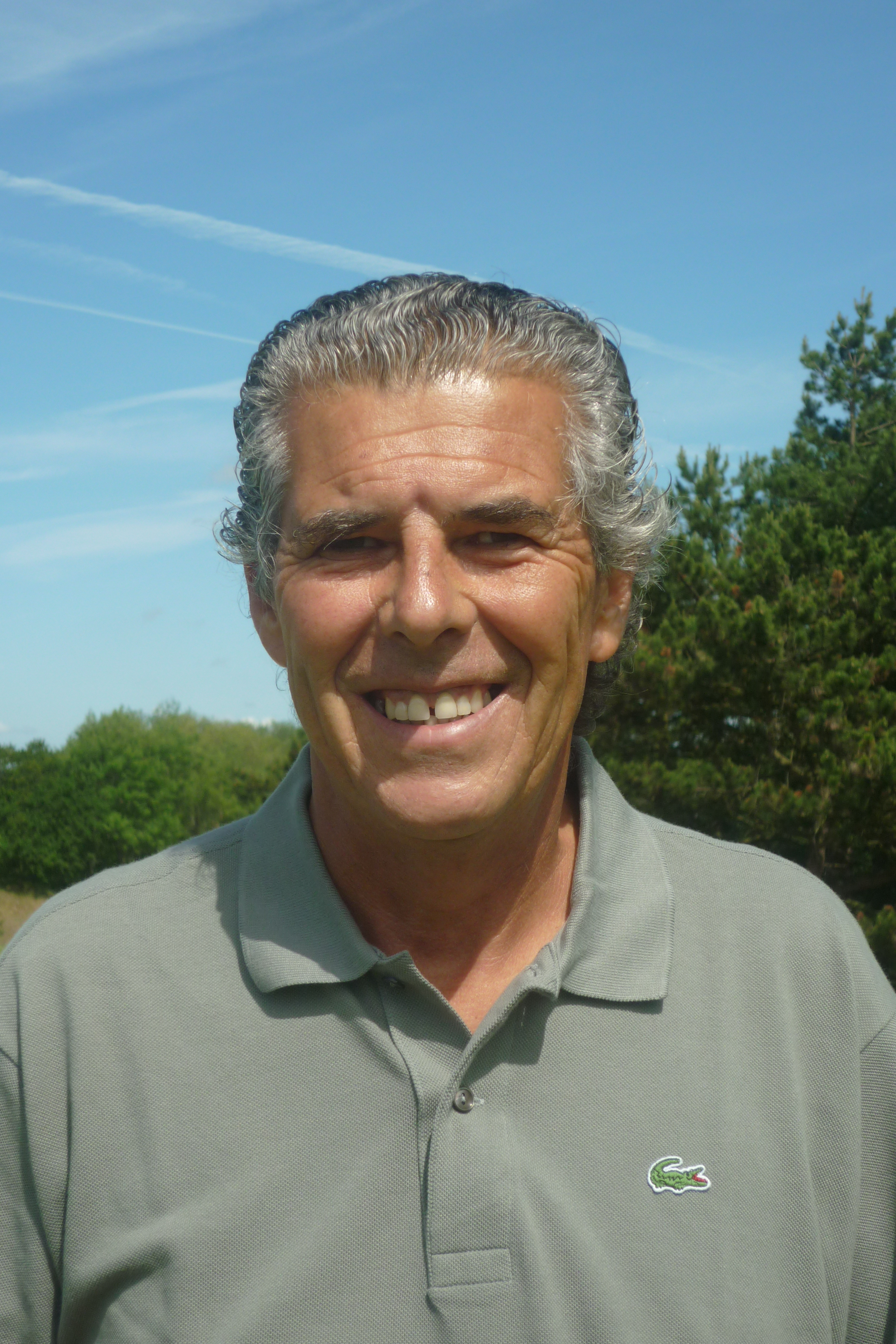 Géry Watine at the Dutch Seniors Open 2010